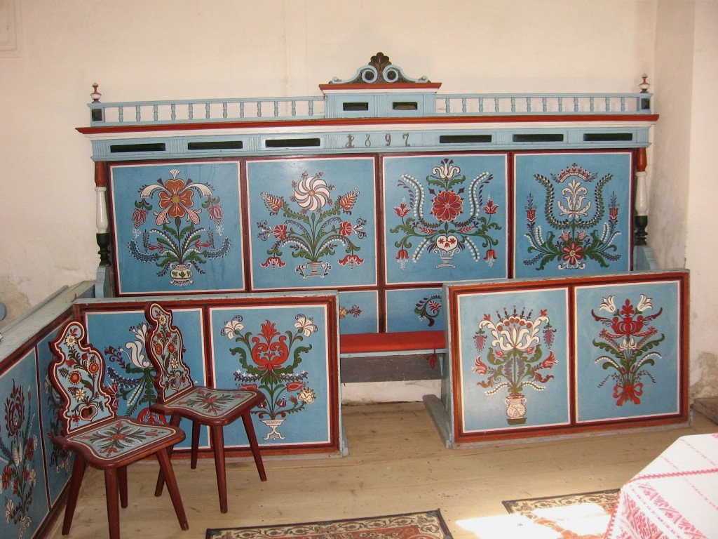 Covasna County, Aita Mare, Unitarian church